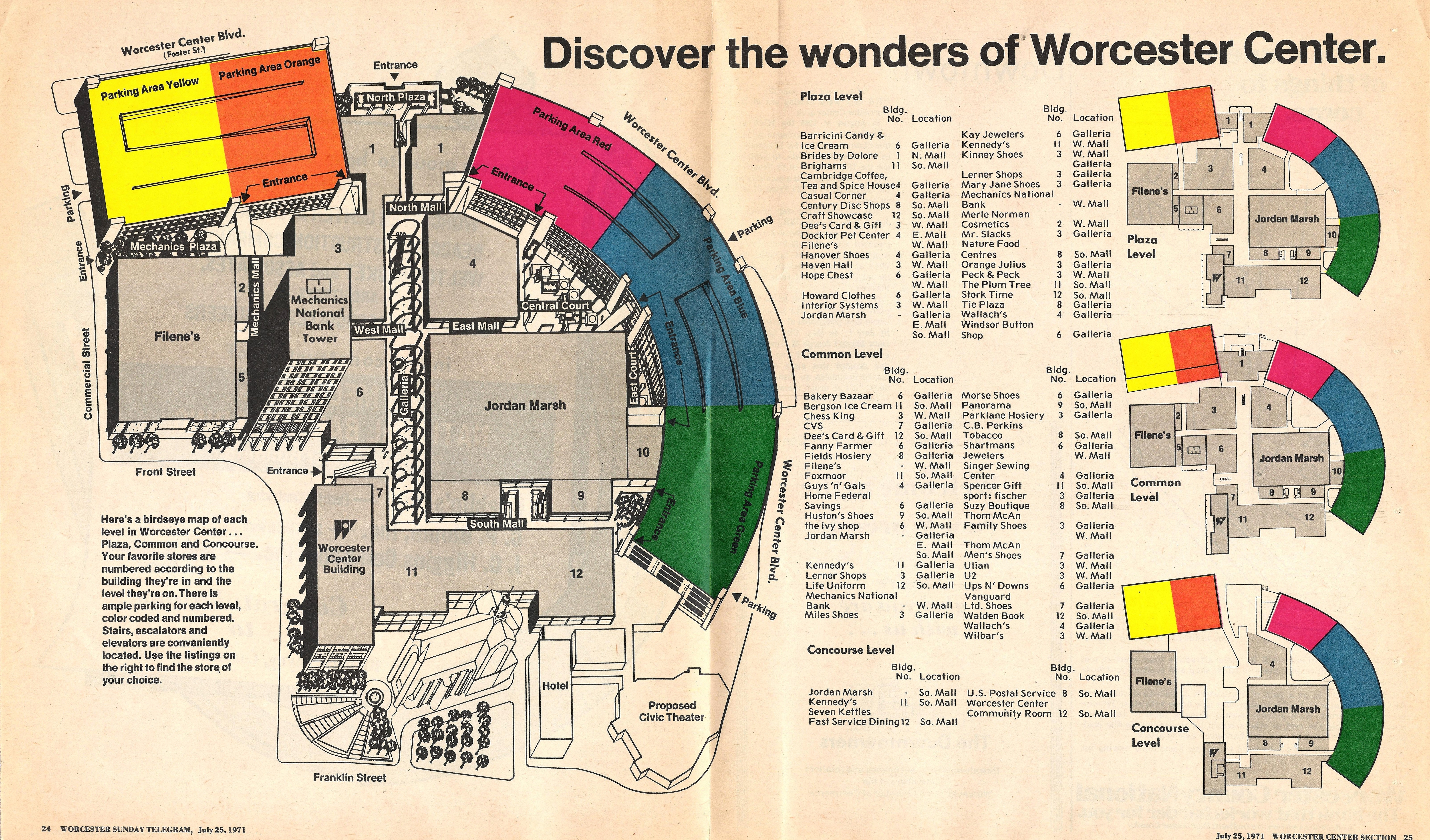 Map of Worcester Center including the Worcester Center Galleria mall published one week before opening